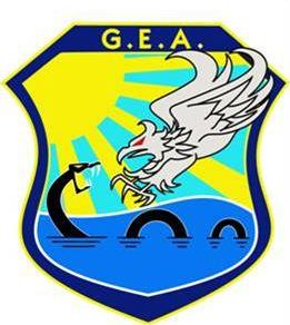 Stemma GEA